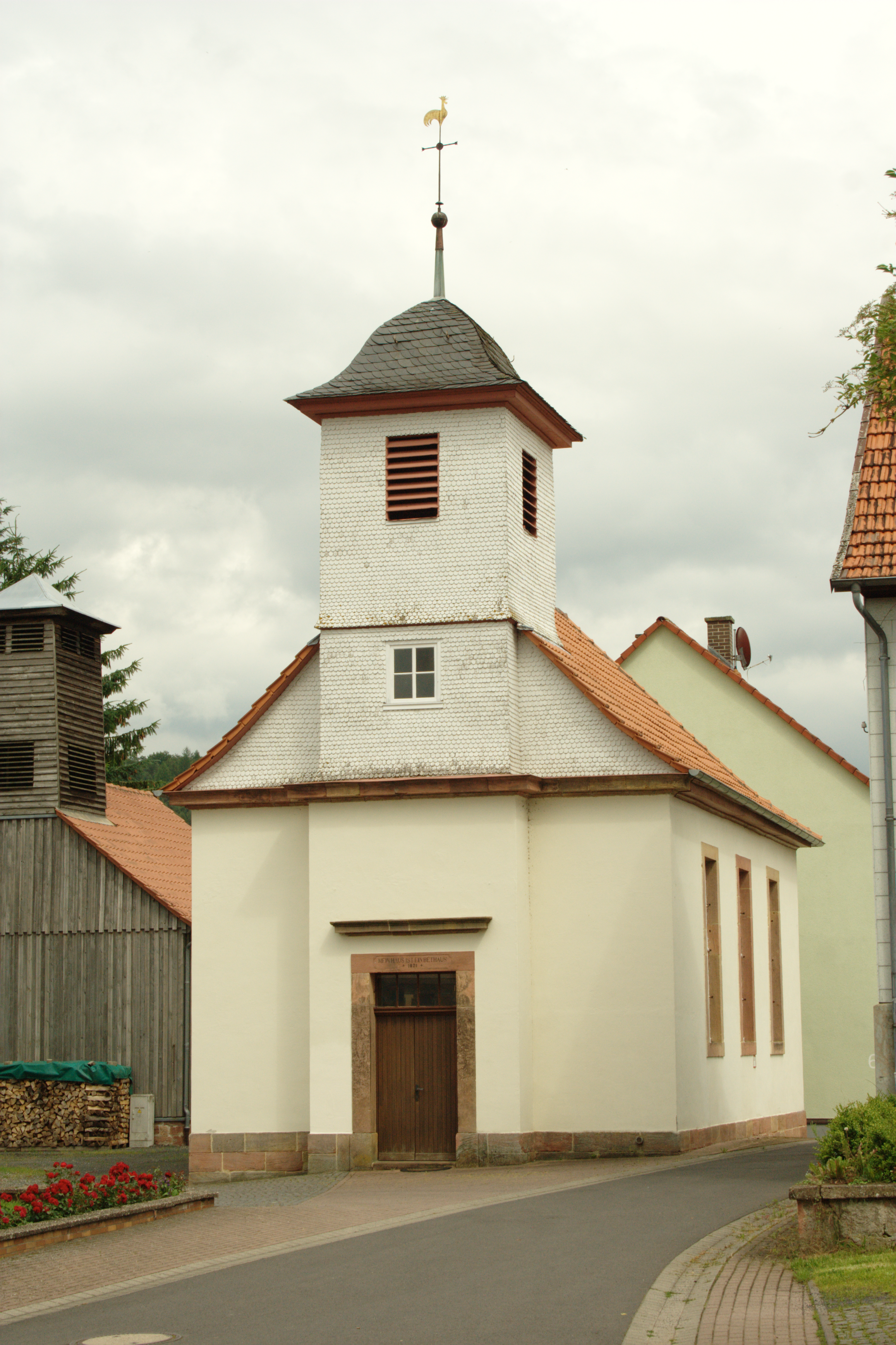 Church, Hemmen, Schlitz, Hesse, Germany